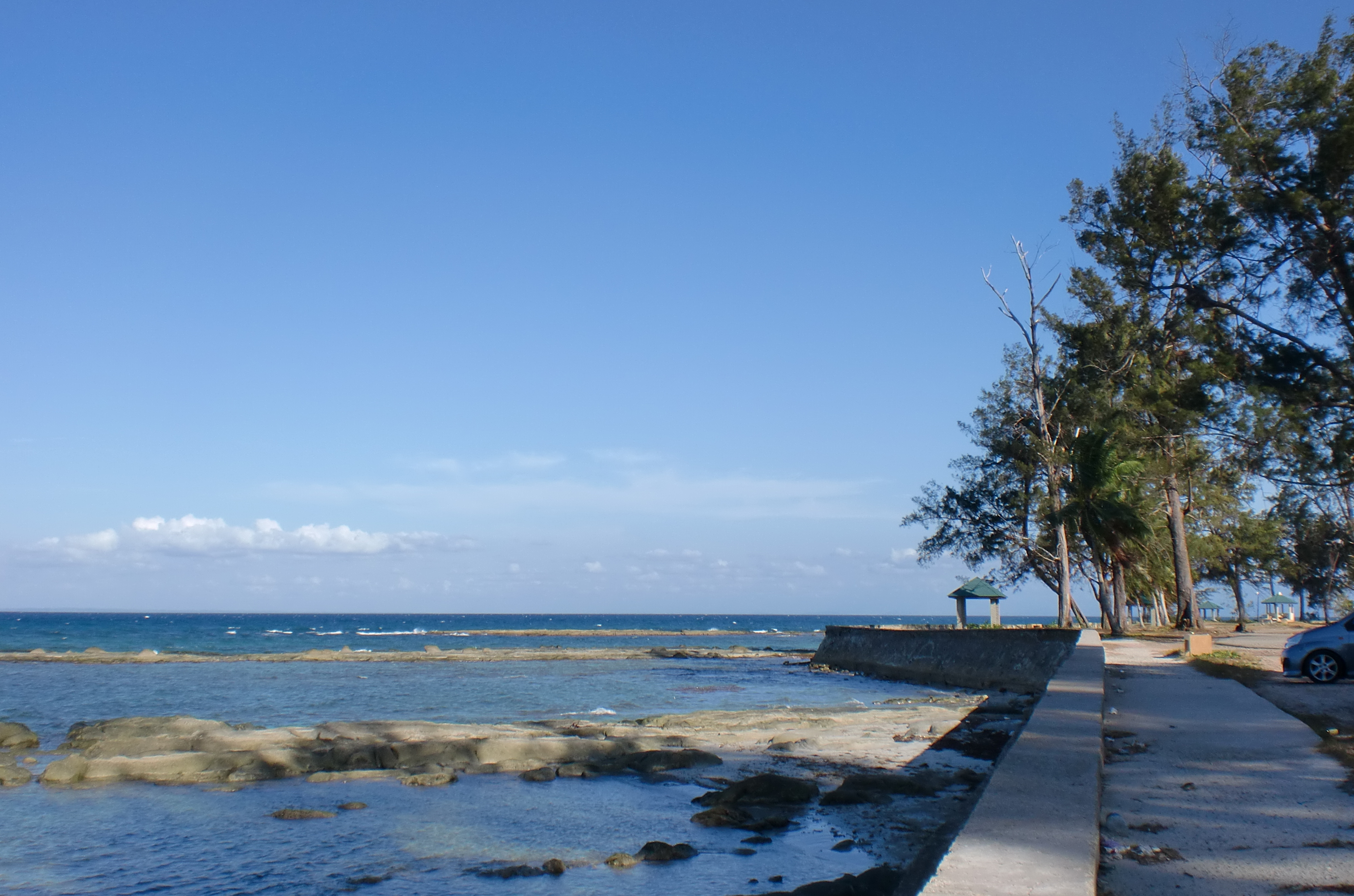 View of Bak Bak Beach in Kudat, Sabah, Malaysia.